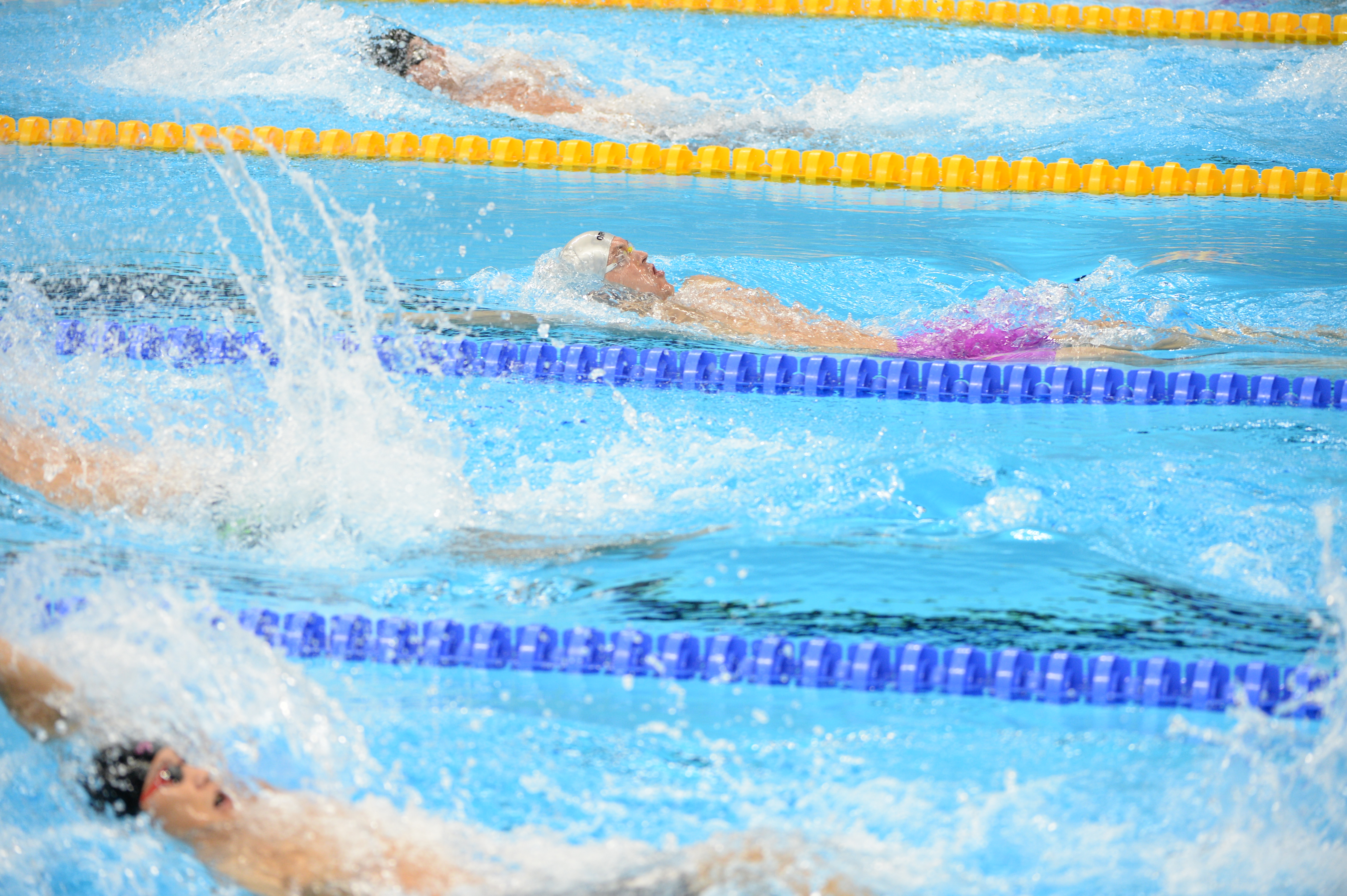 Dzmitry Salei. Swimming at the 2016 Summer Paralympics – Men's 100 metre backstroke S12